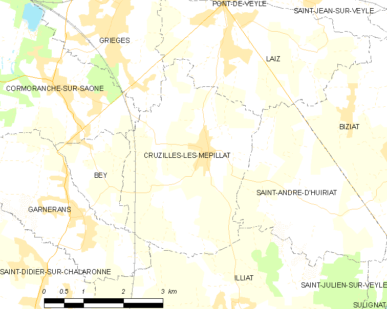 Map of French commune: Cruzilles-lès-Mépillat Map commune FR insee code 01136.png